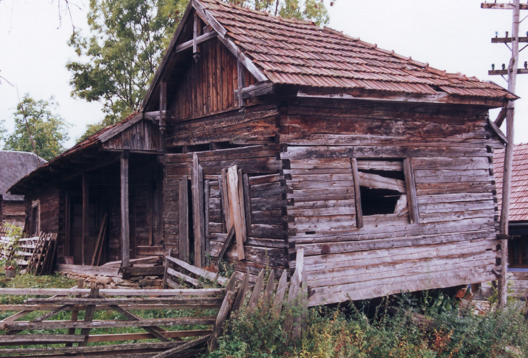 Old wooden building in Văleni, Trnsylvania